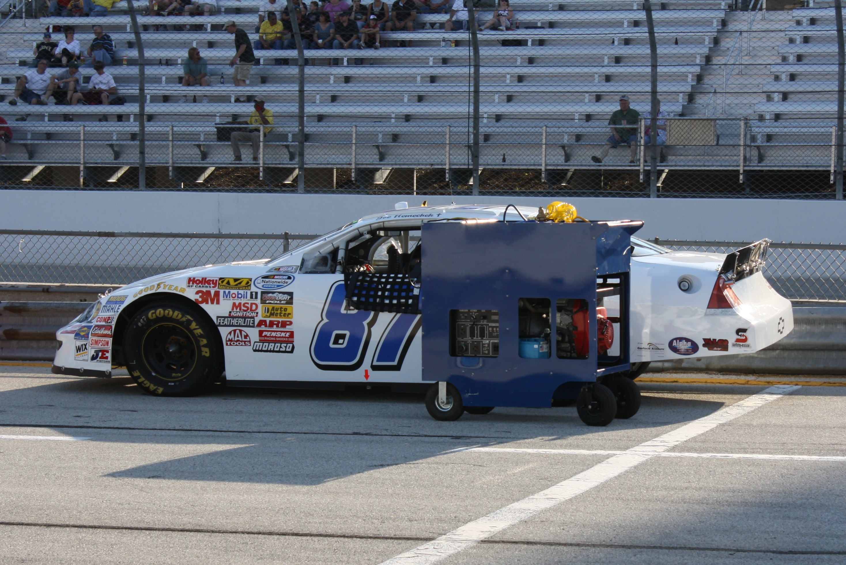 NASCAR driver Chad Blouts Chevrolet at the 2009 Northern 250 Nationwide Series race at the Milwaukee Mile.